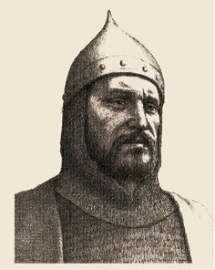 Boleslaw Rogatka